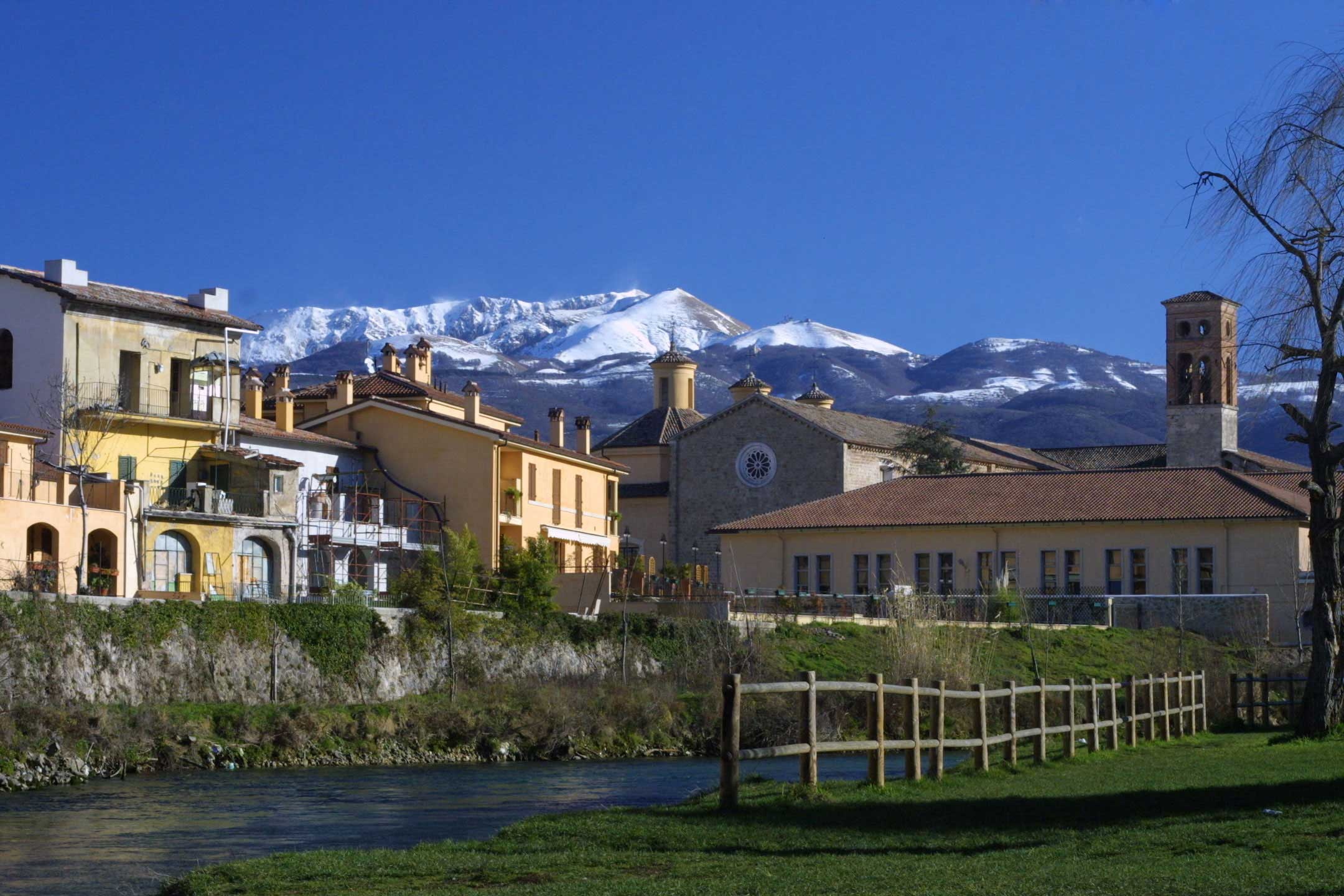 View of Rieti (Lazio, Italy): Velino river, St. Francis church, Mount Terminillo